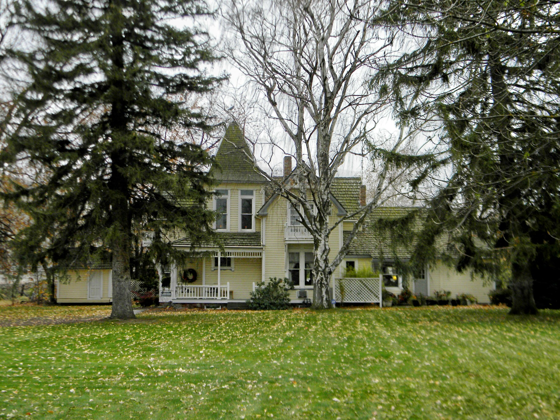 J. W. Carey House Property is set well off nearby county Road.